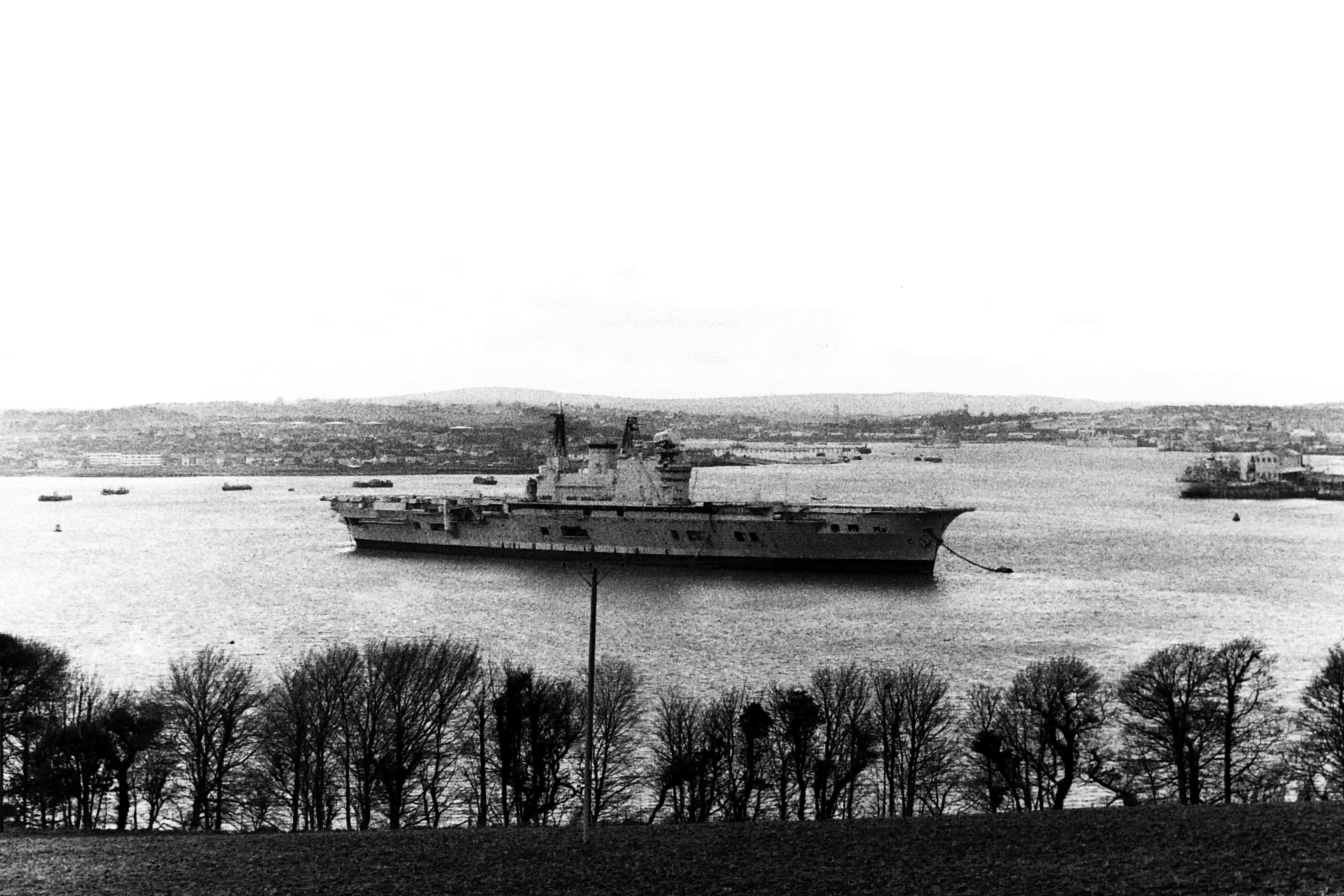 The decommissioned Royal Navy aircraft carrier HMS Eagle (R05) laid up in the Hamoaze, Plymouth Sound (UK), on 13 January 1973.